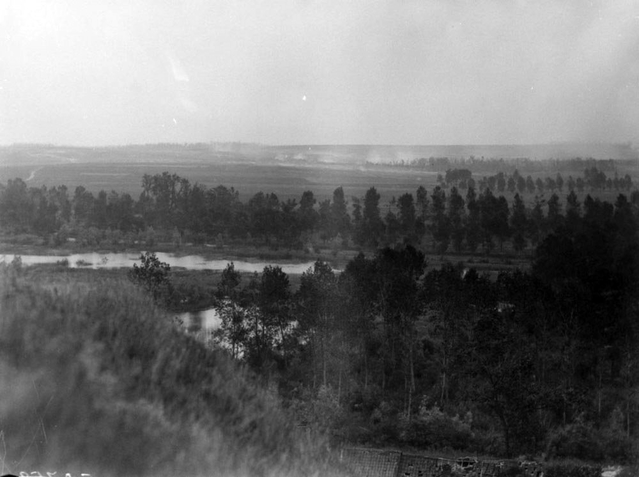 The AWM caption reads: "The burning village of Hamel (centre) and the smoke enveloped Hamel Wood, during their attack and capture by the Australian troops, on 4 July 1918. The line of trees running from left to right borders the Somme Canal. Vaire Wood and Hamel Wood with the village itself were the chief centres of resistance which were overcome by the 4th and 11th Brigades respectively, the 6th Brigade attacking on the right."